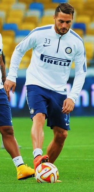 Danilo D'Ambrosio